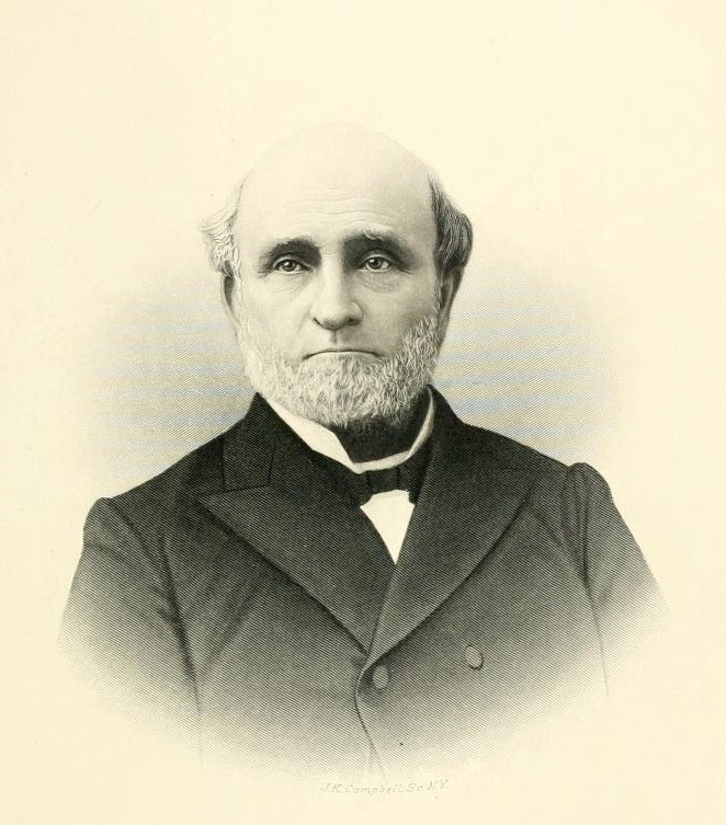 Portrait of New York Chief Judge Robert Earl